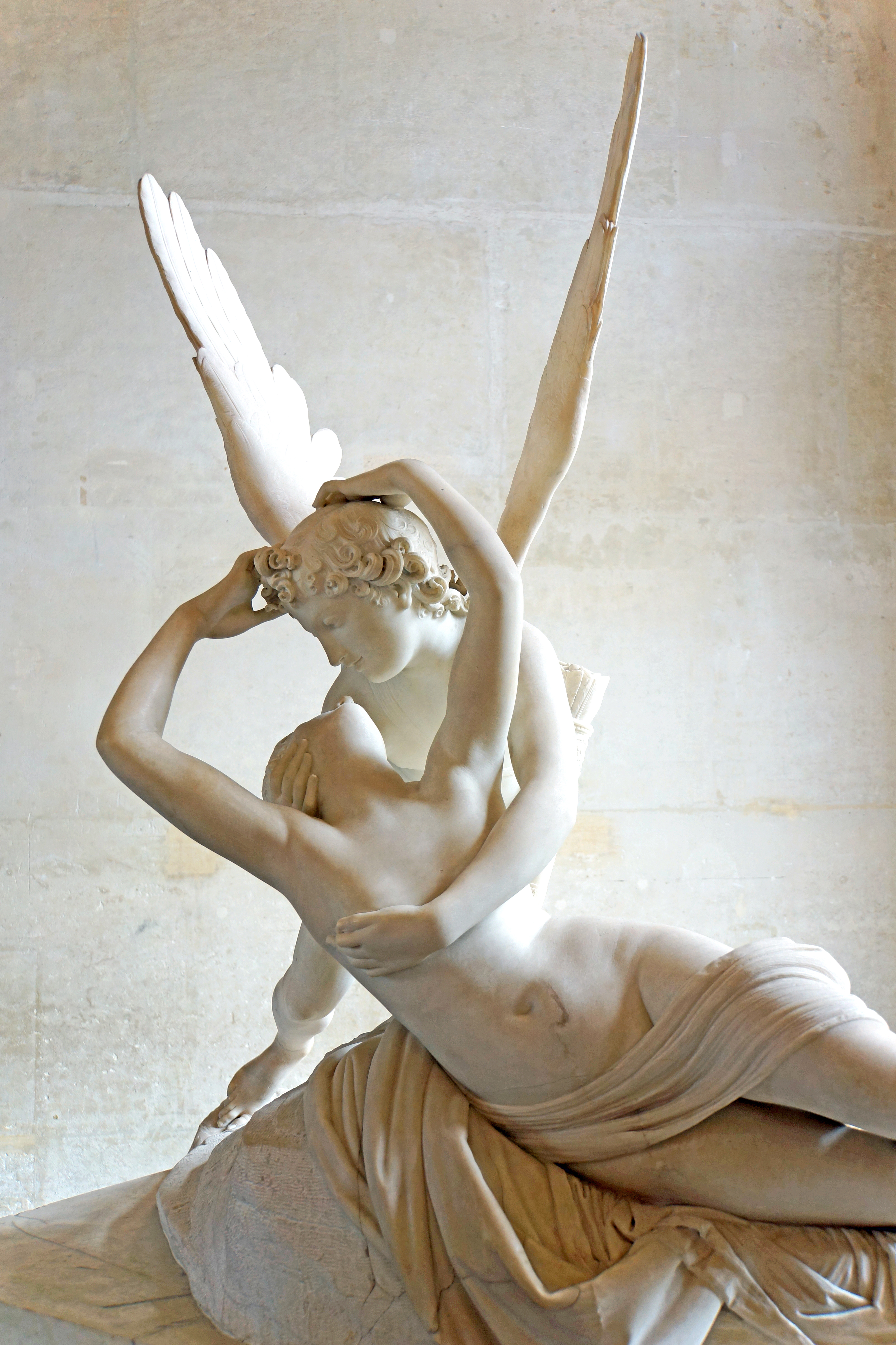 Psyche revived by the kiss of Love (Louvre)